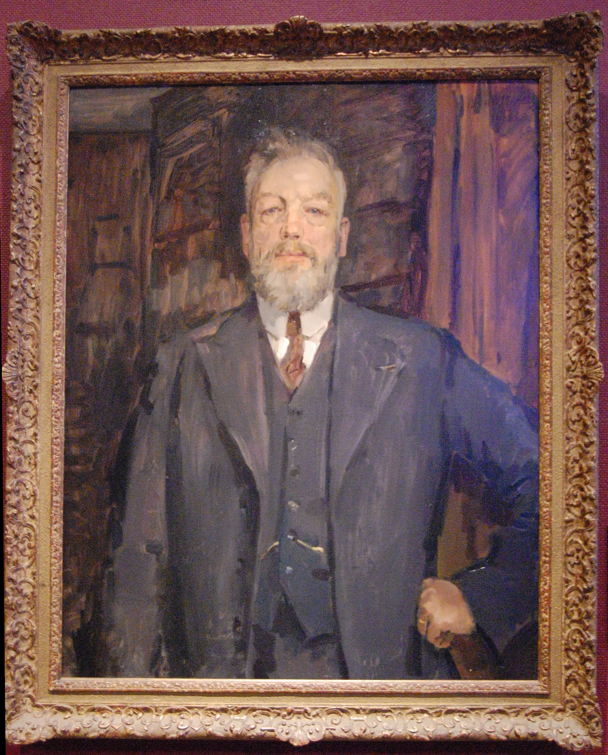 Portrait of Rommert Casimir by Isaac Israels